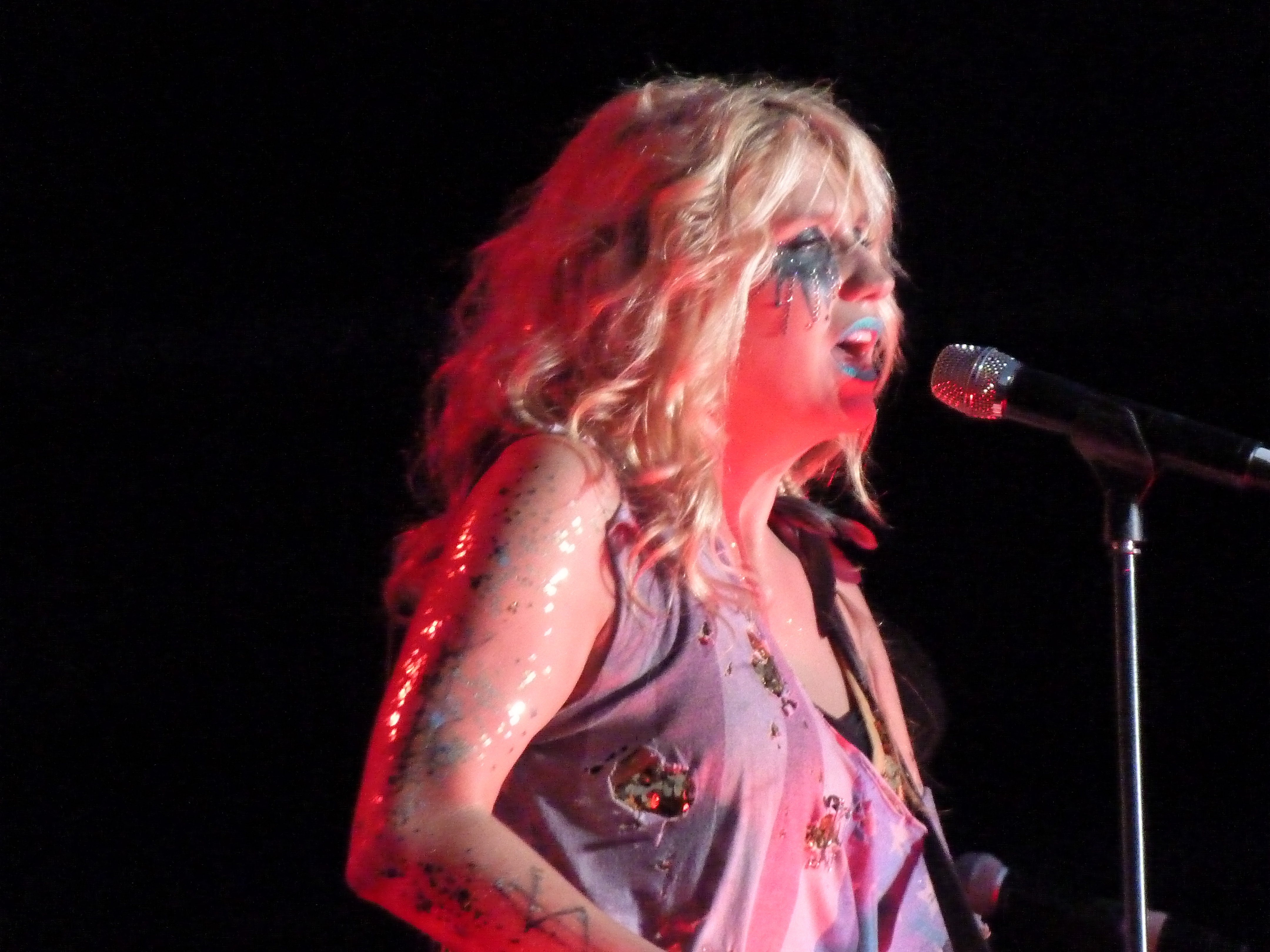 KeSha Budapest Concert, 2011